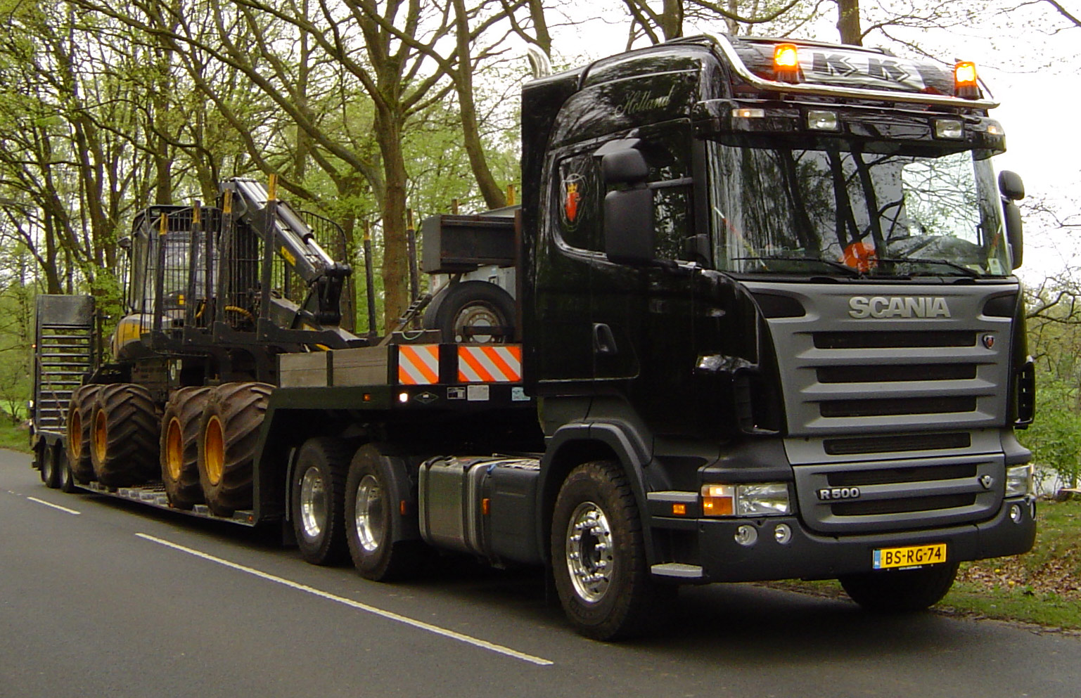 Scania R500 truck